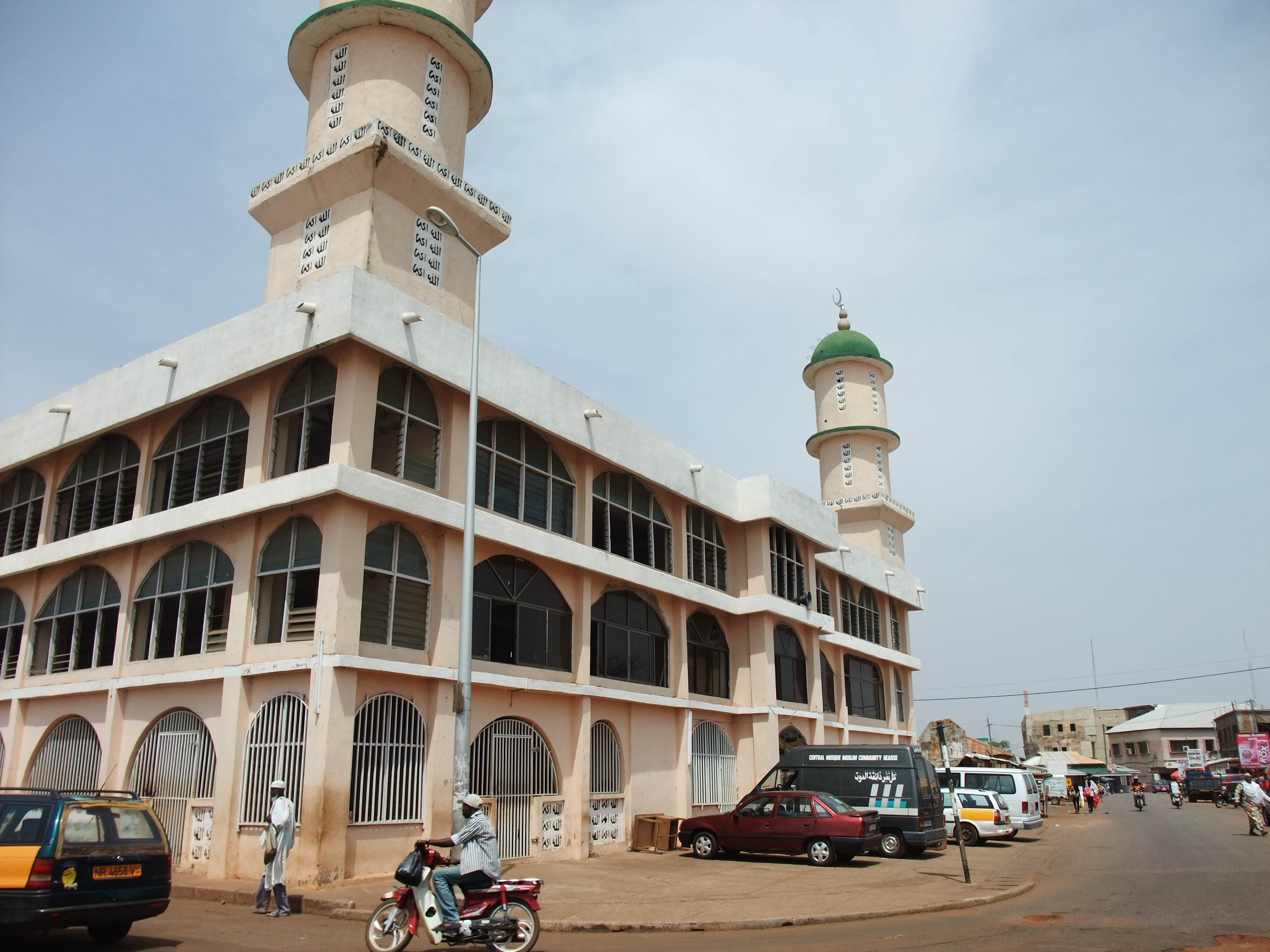 Road in Tamale, Northern Region.